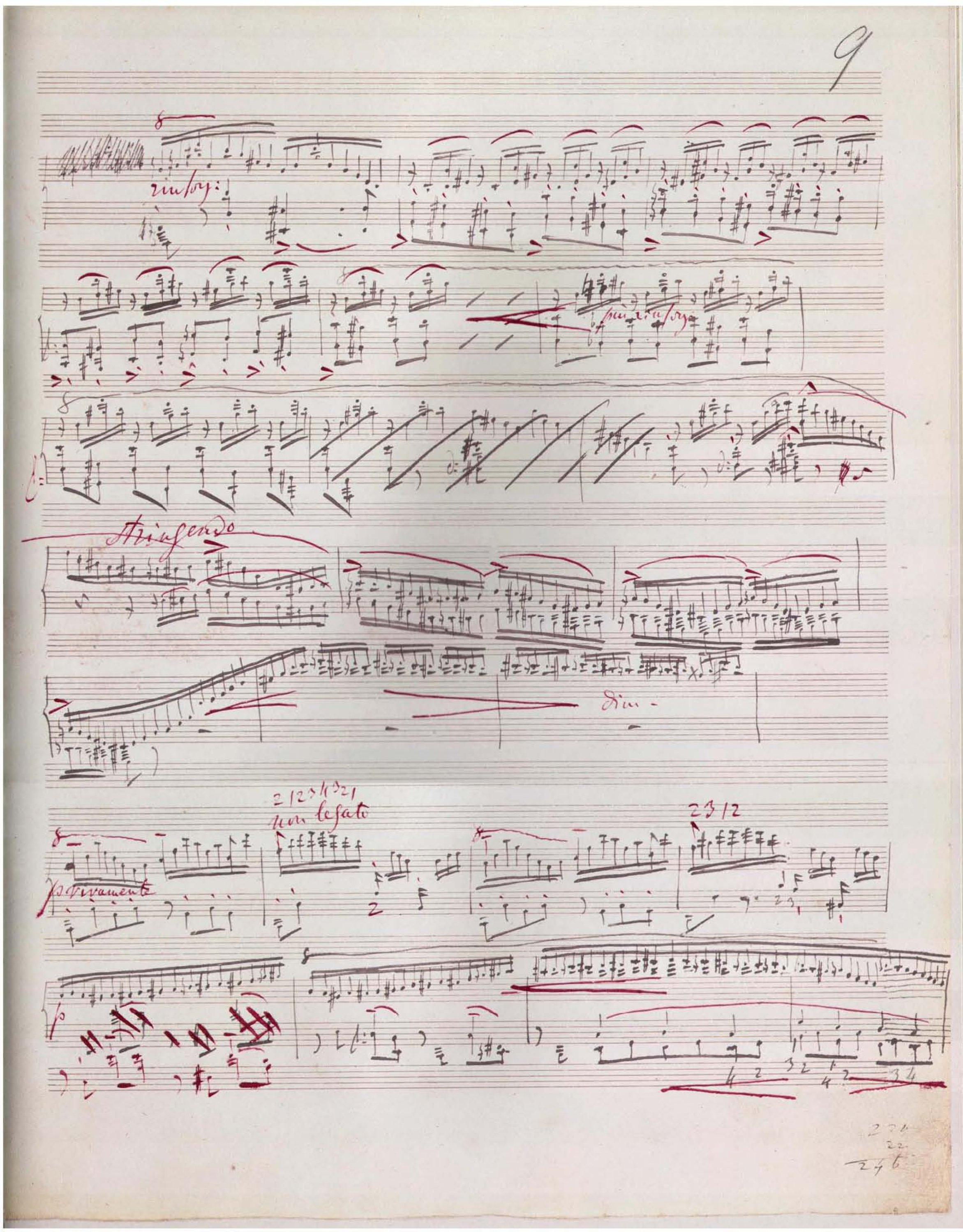 Page 11 of manuscript of Sonata in B minor by Franz Liszt